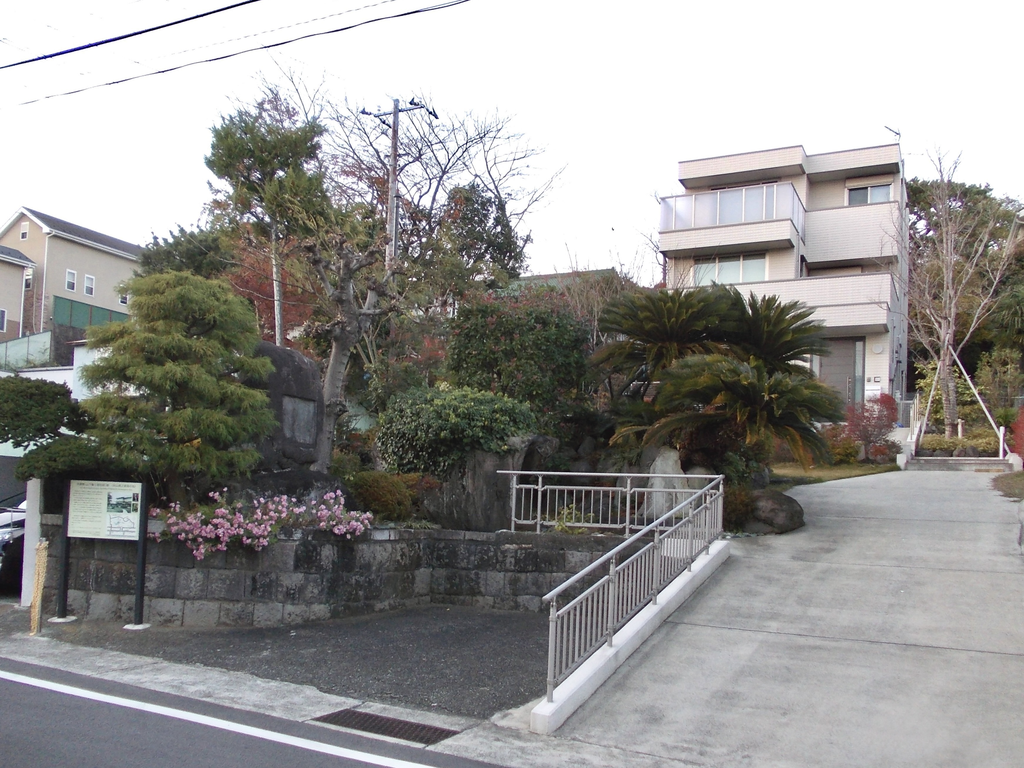 Taicho-kaku